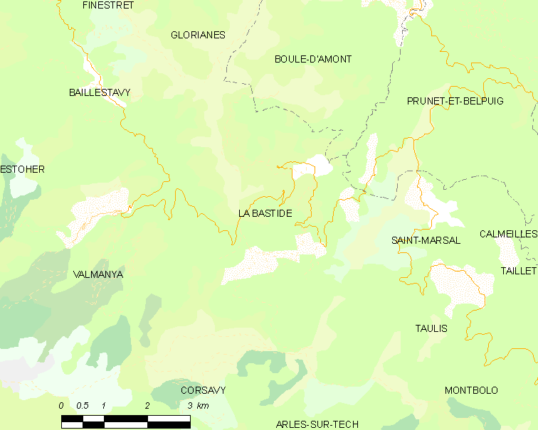 Map of French municipality